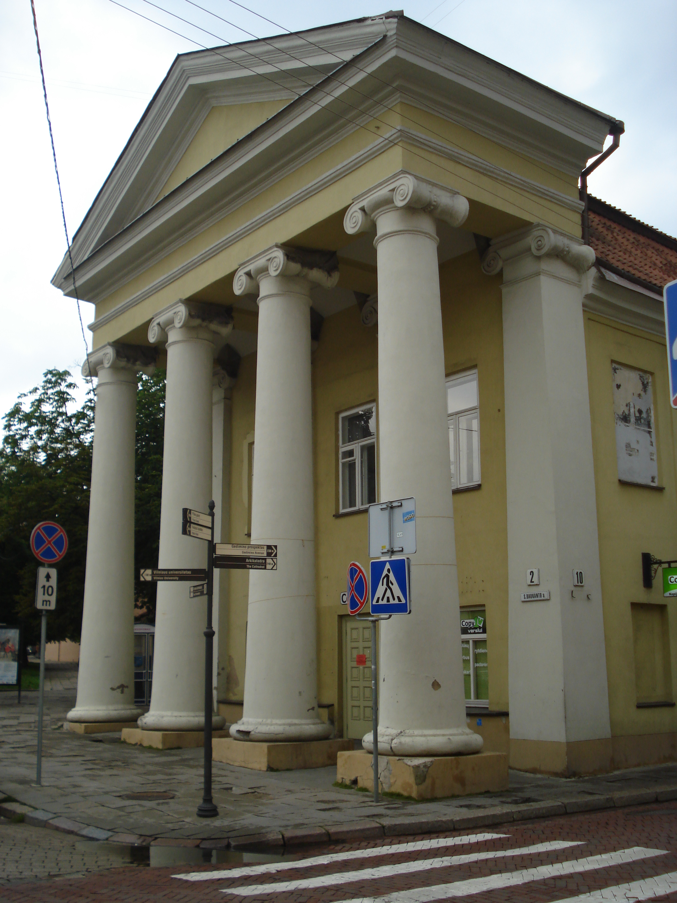 The house of de Reuss in Vilnius (Daukanto place)